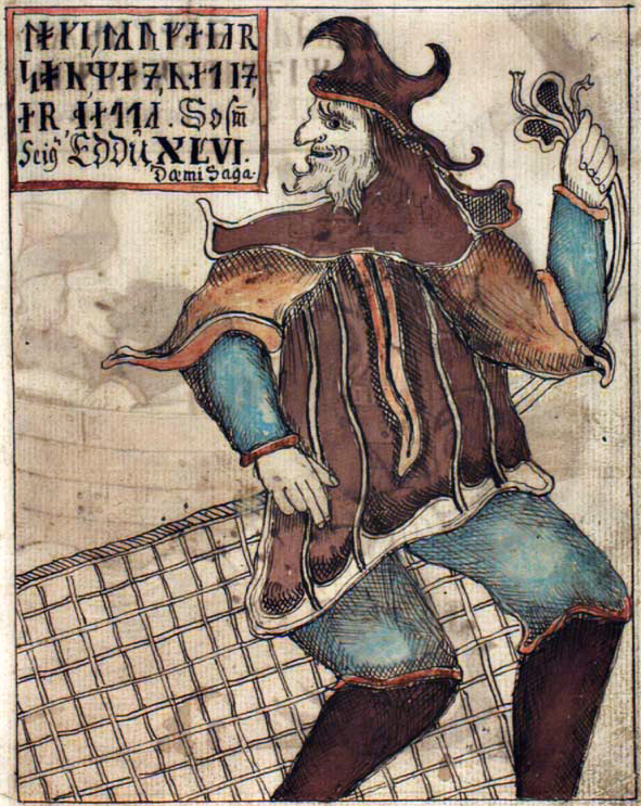 An illustration of Loki with a fishnet, from an Icelandic 18th century manuscript.